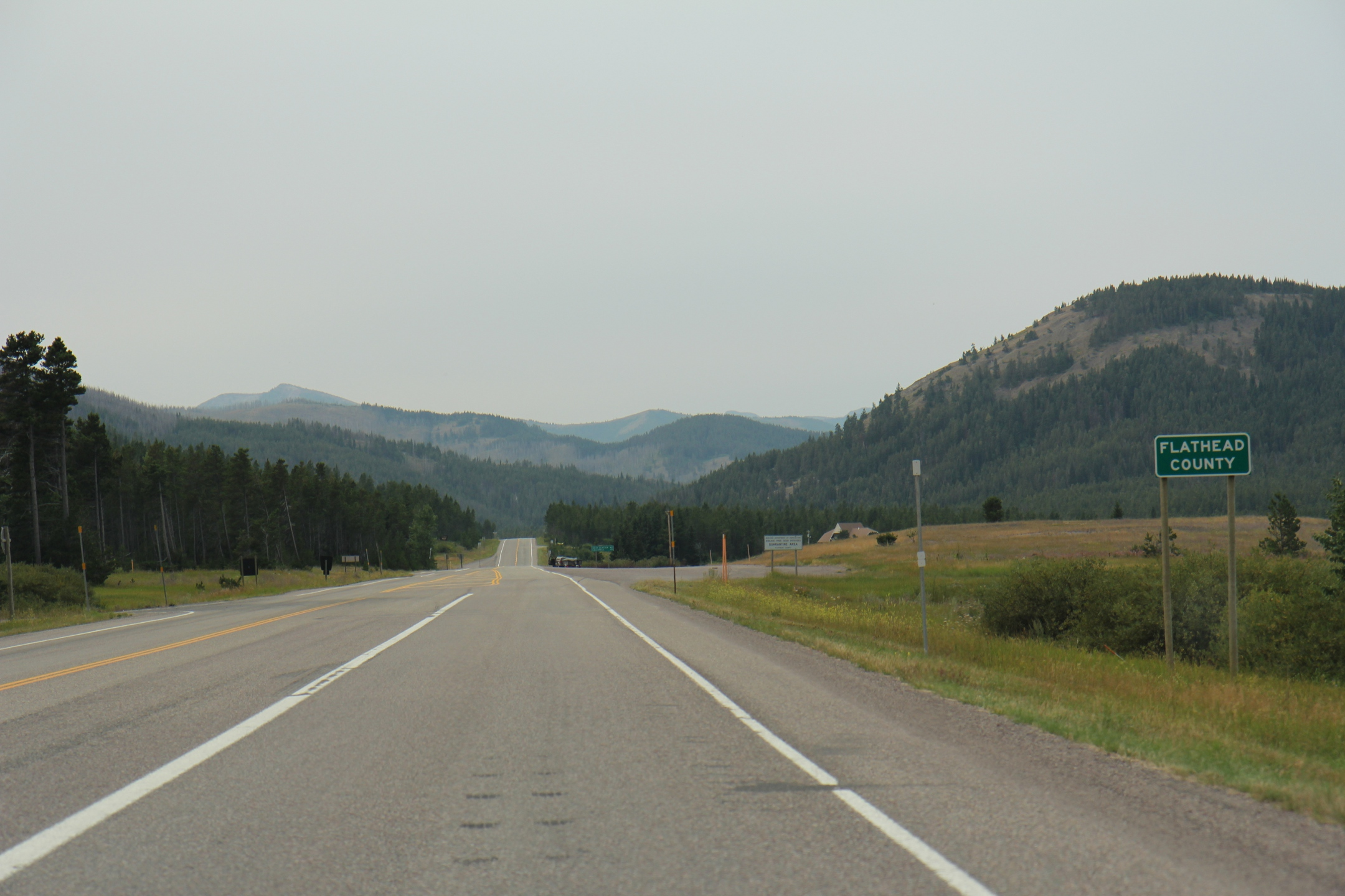 Entering Flathead County, Montana on U.S. Route 2.